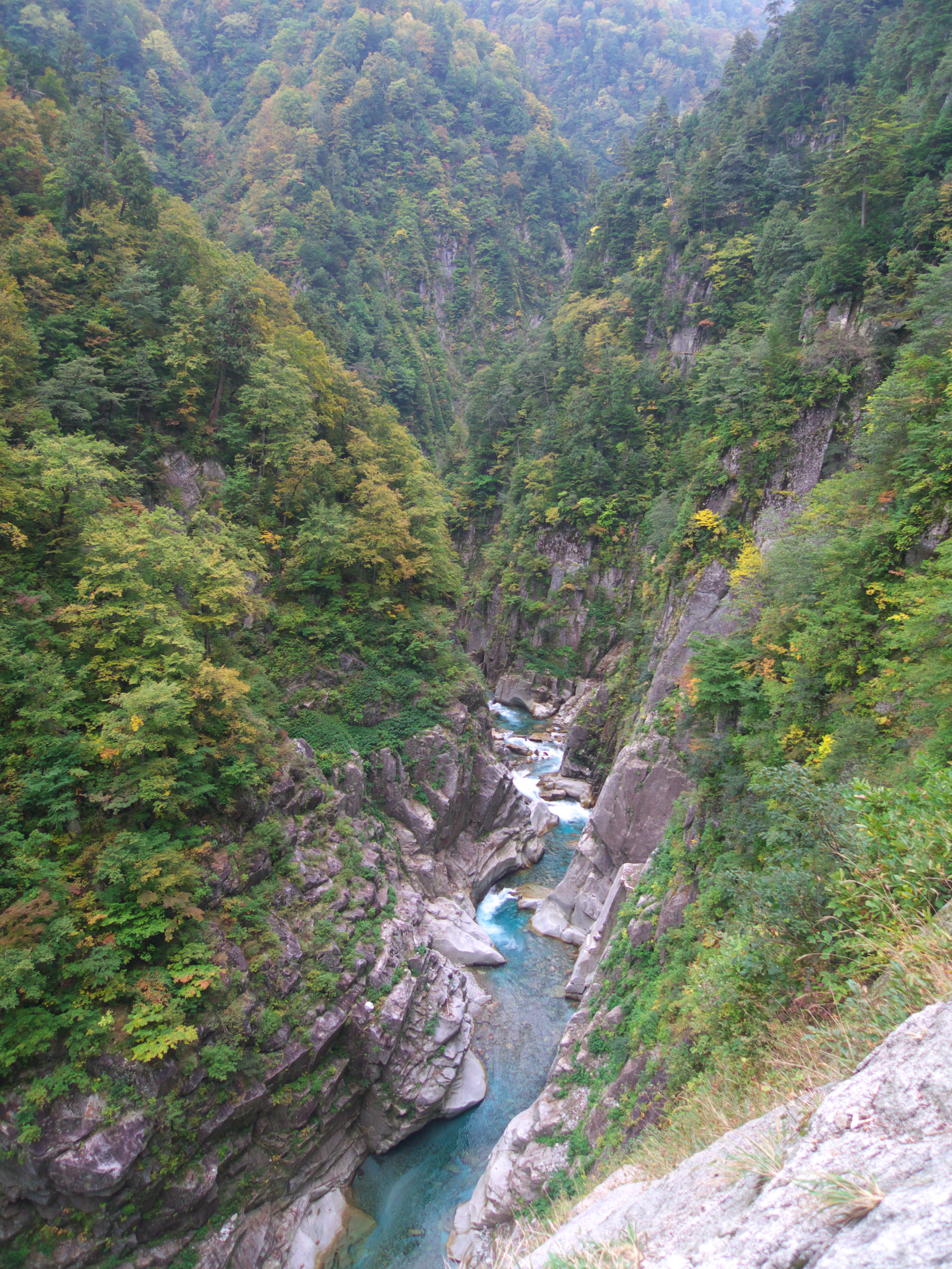 S-ji-kyo ("S shaped gorge") in Kurobe Gorge, viewed from the Nichiden Hodo trail